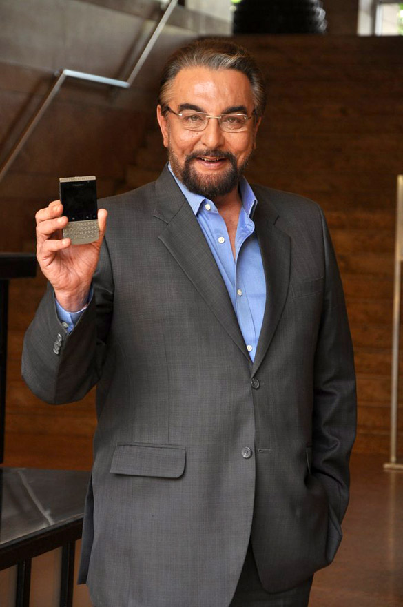 Kabir Bedi poses with Blackberry-Porsche Design P'9981 mobile